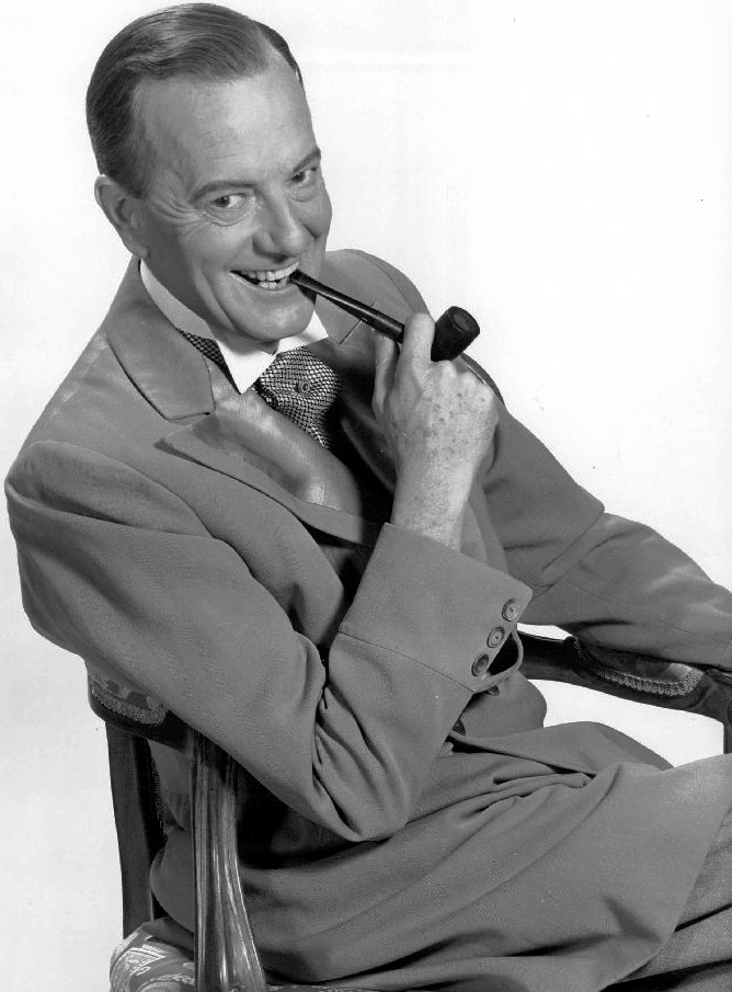 Publicity photo of Maurice Evans for his performance on the television program Hallmark Hall of Fame.